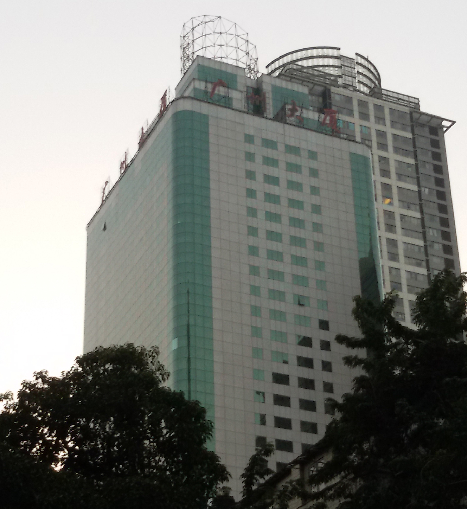 HOTEL CANTON